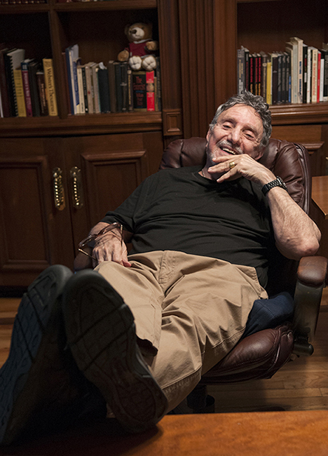 Author William Peter Blatty inside of his home office in 2009.